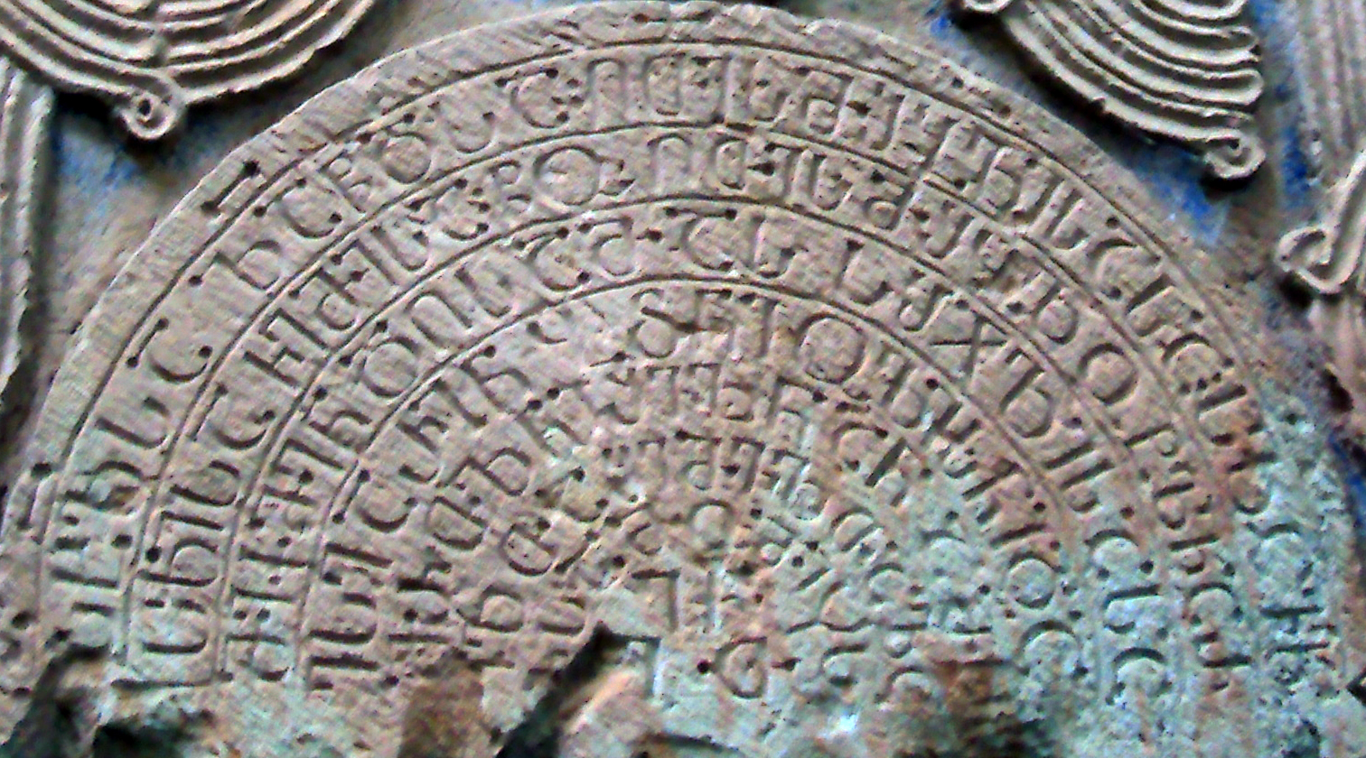 Georgian asomtavruli inscription from Ishkhani mentioning King George I of Georgia.